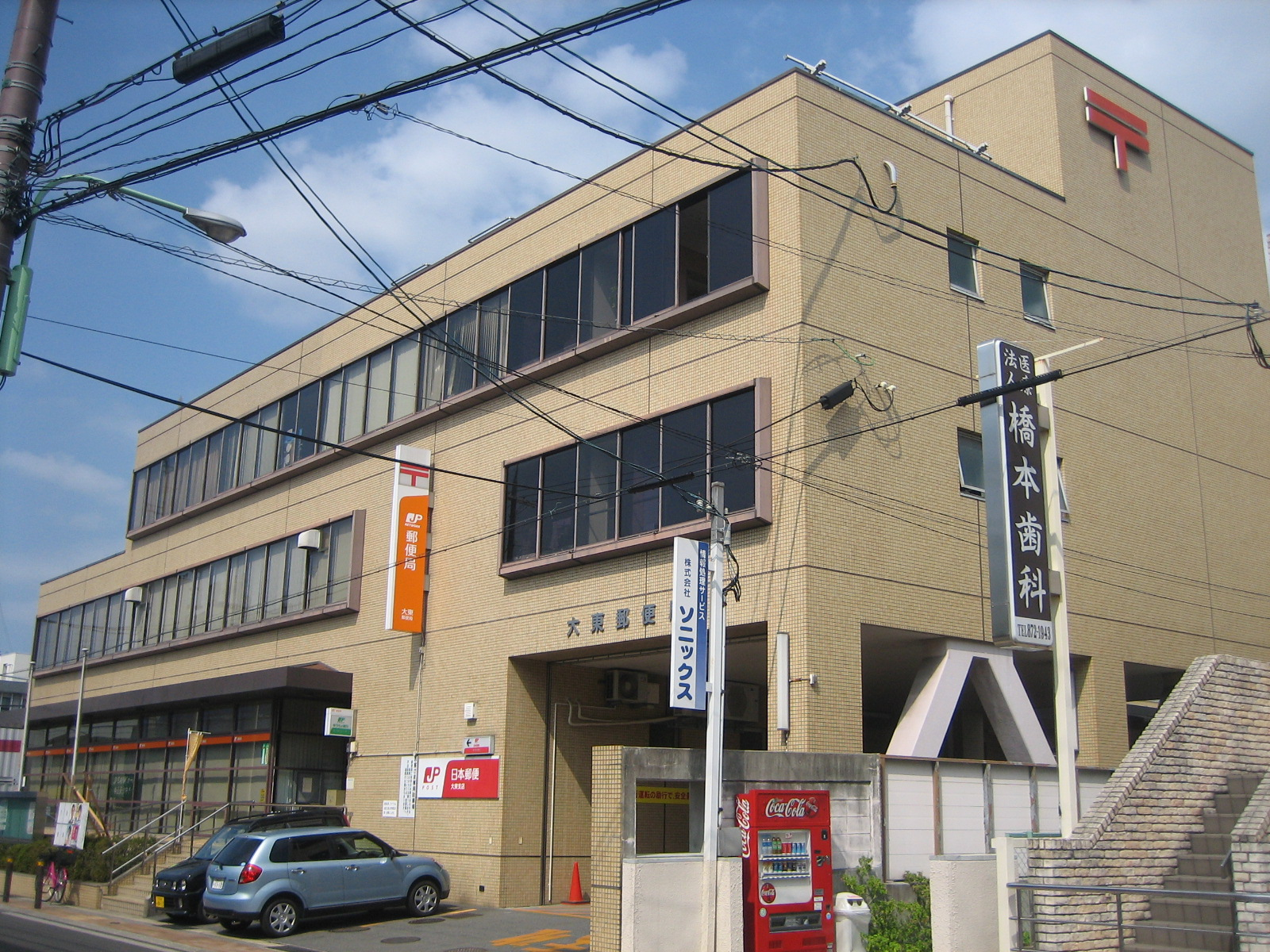 Daito post office in Osaka, Japan